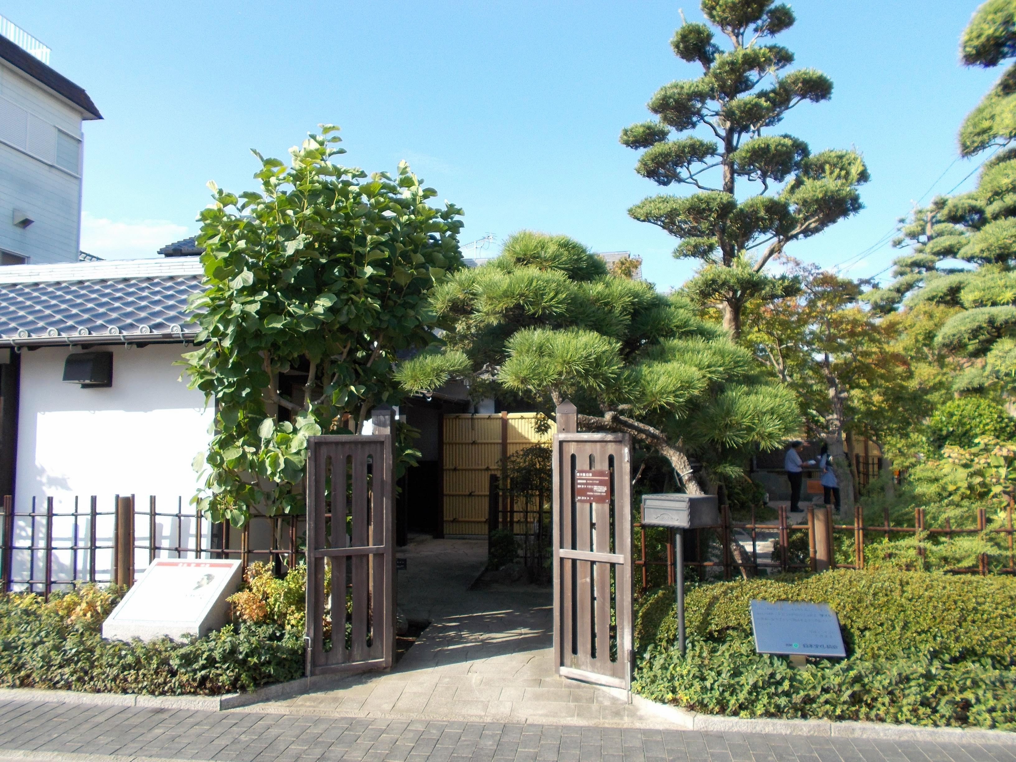 The Former Residence of Shigeru Aoki, Kurume, Fukuoka, Japan